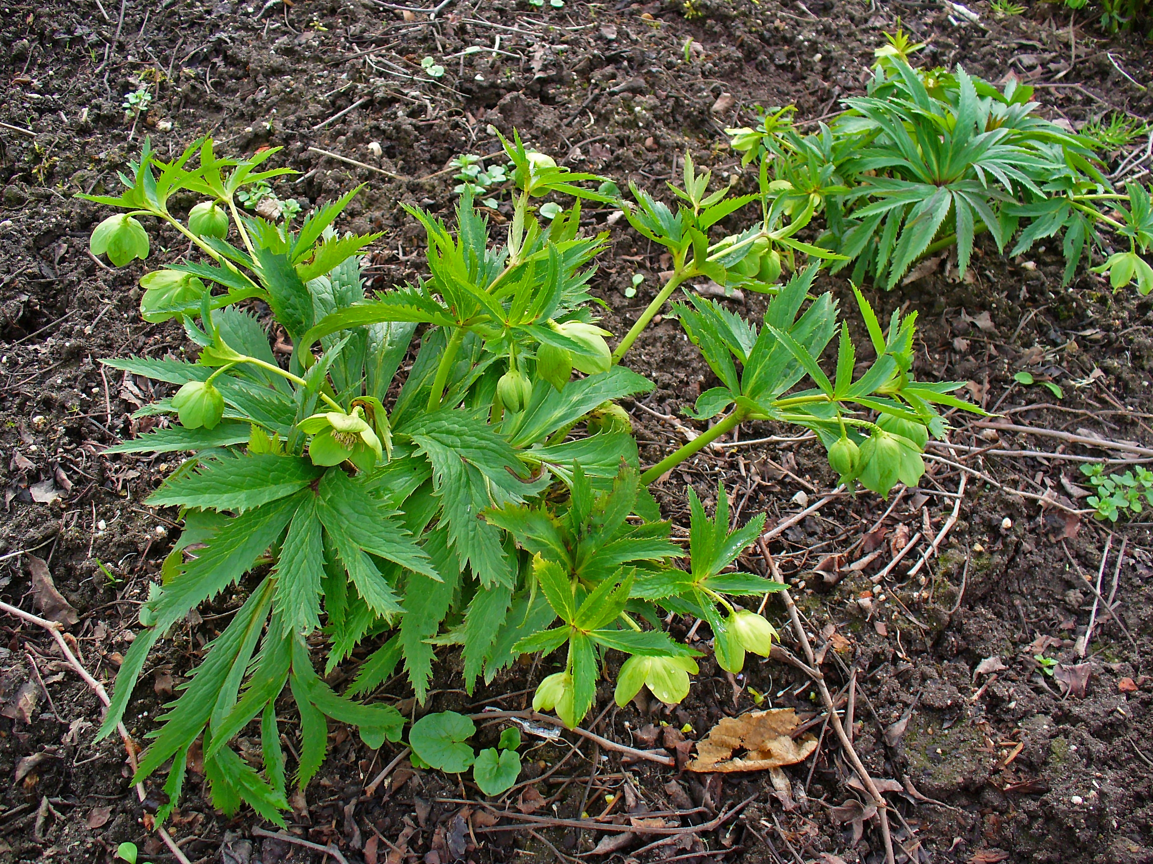 Helleborus viridis, Ranunculaceae, Green Hellebore, habitus. The dried rootstock is used in homeopathy as remedy: Helleborus viridis (Hell-v.)